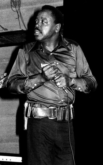 Blues harpist Carey Bell in Paris, France